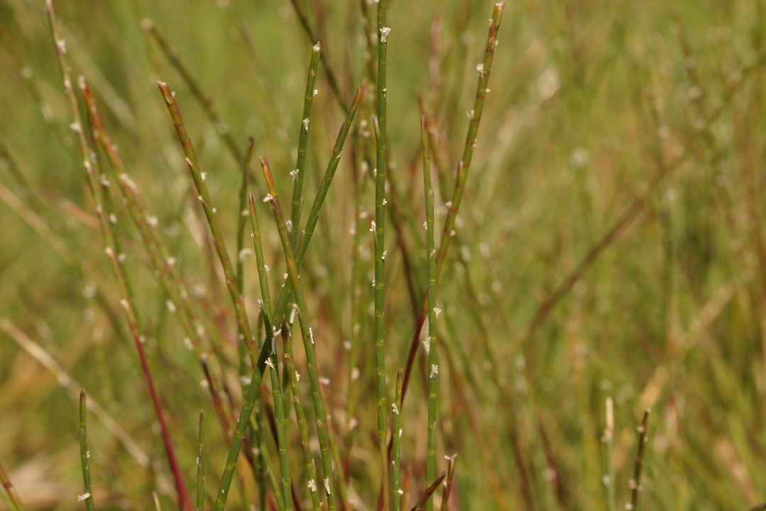 Parapholis strigosa